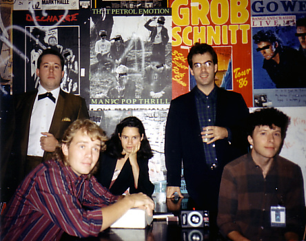 10,000 Maniacs: taken in Germany (probably Dusseldorf) and the 5 people are the members of the 10,000 Maniacs. If you look very closely to the poster behind them, the That Petrol Emotion poster has been changed to Maniac Pop Thrill. from left to right: Rob Buck, Steve Gustafson, Natalie Merchant, Dennis Drew and Jerry Augustyniak